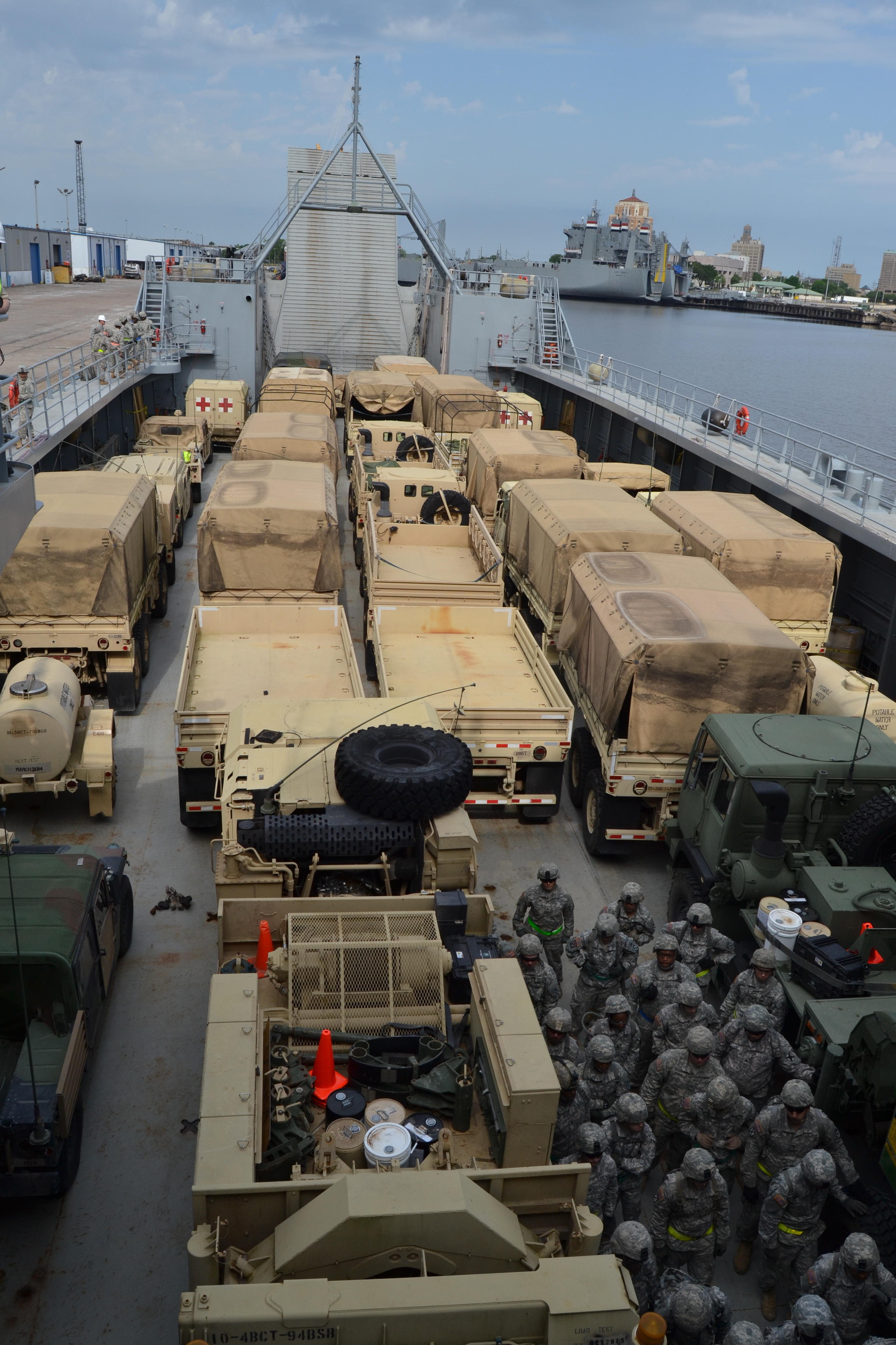 Soldiers with 710th BSB conducted their expeditionary Sealift Emergency Deployment Readiness Exercise, convoying from Fort Polk, La., to the Port of Beaumont, Texas, April 13-16, 2015. This exercise trains BSB Soldiers on loading, tying down and unloading sustainment equipment from an Army logistic support vessel enabling the unit to respond to a natural disaster. (Photo by U.S. Army Sgt. 1st Class E. L. Craig)